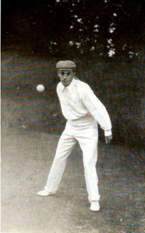 Paul de Borman, Belgium tennis player (1879-1948)